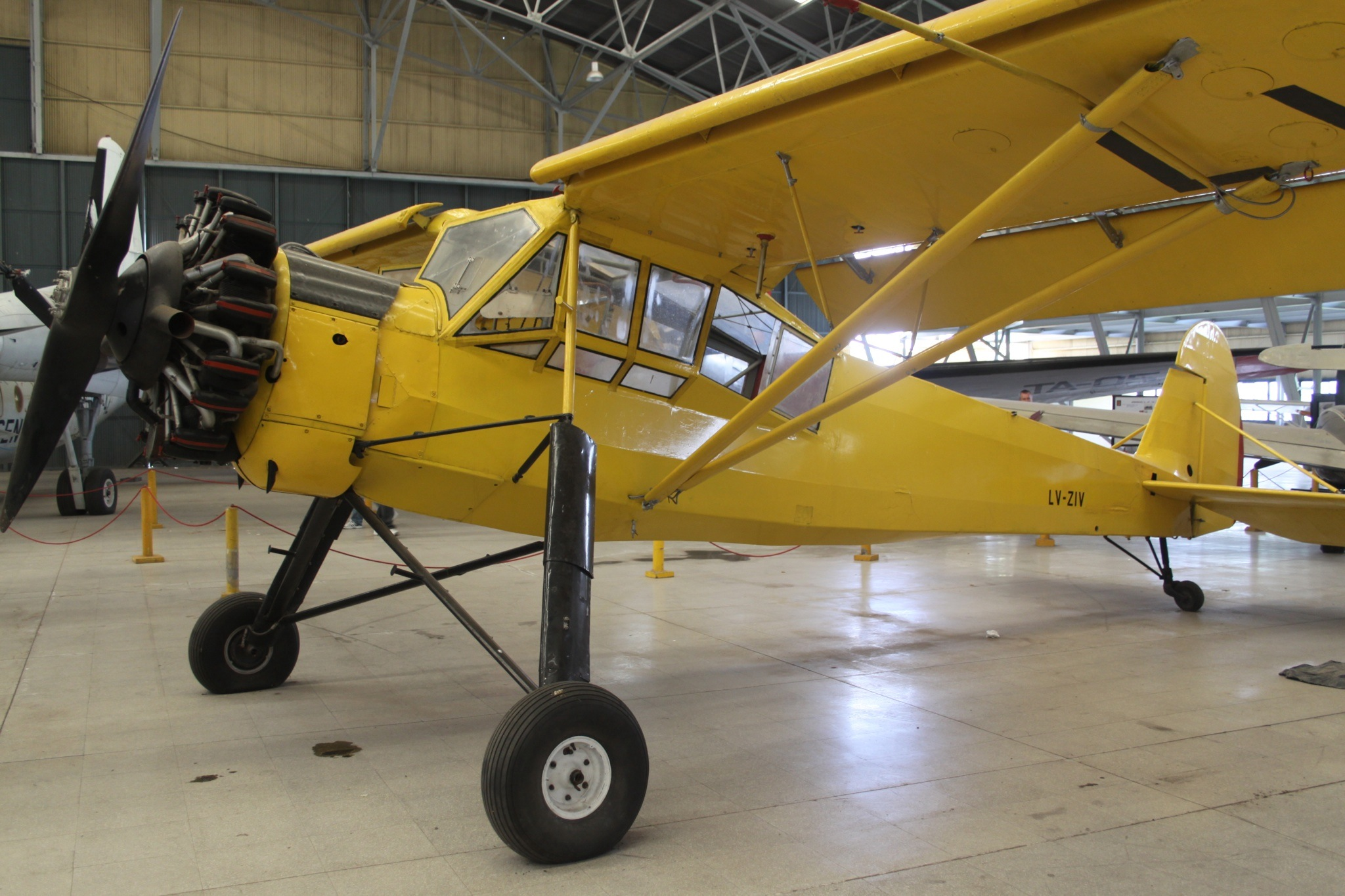 At Moron Museo Nactional De Aeronautica